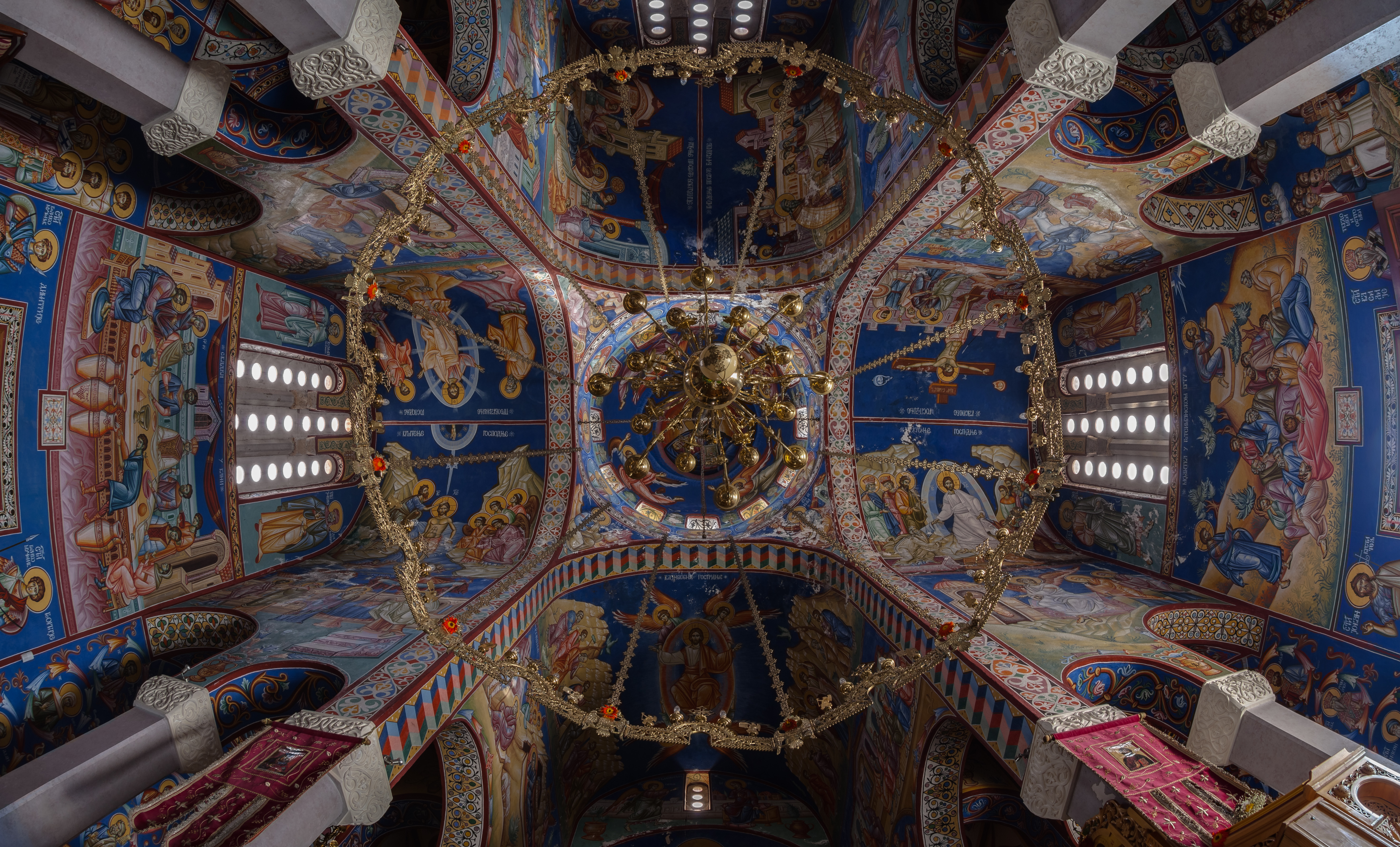 Nova Gracanica church, Trebinje, Bosnia and Herzegovina